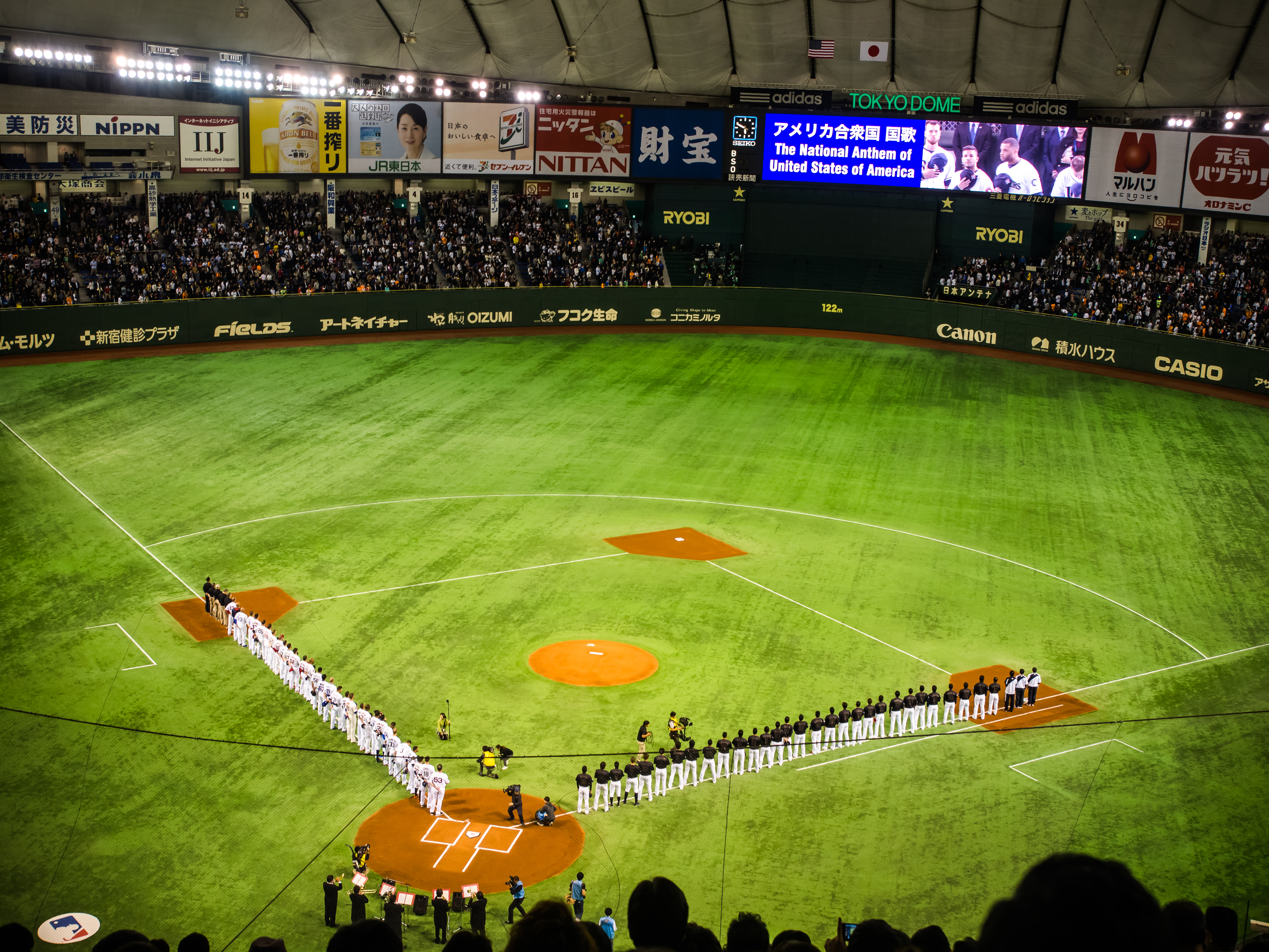 Players lined up on the field at the Tokyo Dome before the November 14th game of the 2014 MLB Japan All-Star Series.